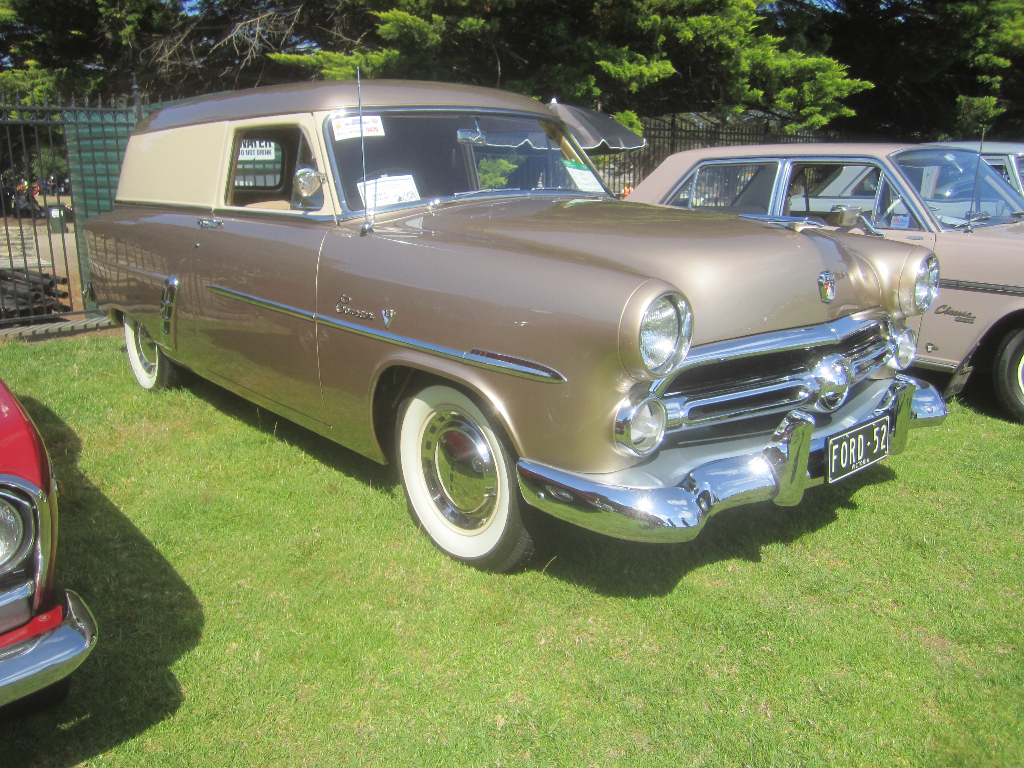 Refreshed styling for 1952, now with 1 piece windshield, the grille was a single bullet with a surrounding ring. Available in Mainline, Customline and Crestline Sedans also Sunliner Convertible, Country Squire Wagon, Courier Van and Victoria Hardtop. V8 Customline Sedan and Mainline Utility Produced in Australia. Engine; New 215 6 cyl OHV but still the old 110hp 239 Flathead V8